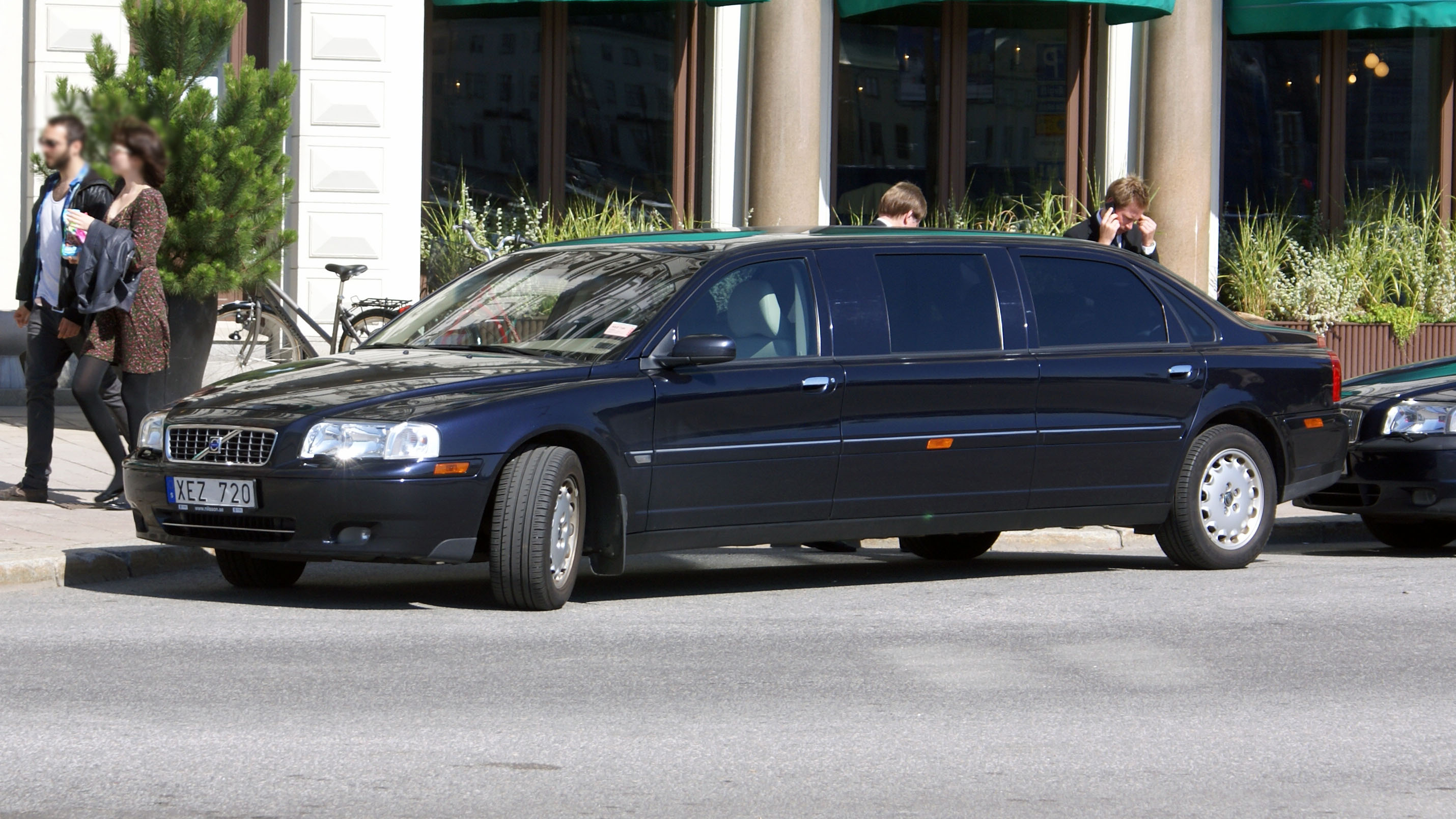 Volvo S80 (TS) stretch limousine in Stockholm